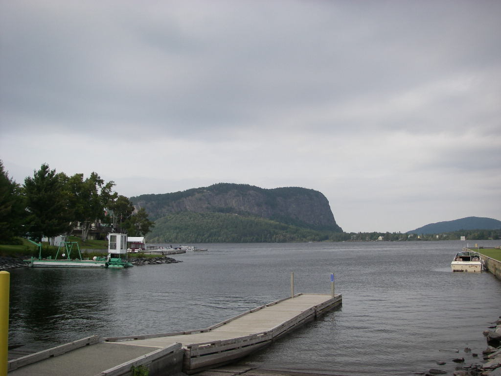 Landing dock for Mt. Kineo in Rockwood, maine.